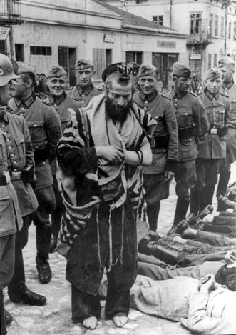 One of the most famous images of the holocaust is of Rabbi Moshe Hagerman the Dayan - Jewish municipal chief judge, dressed in his Talit and Teffilin and being abused by German soldiers. This image was later identified by people who survived the war and the incident, as an image from the 'Bloody Wednesday of Olkusz', taken on July 31, 1940.